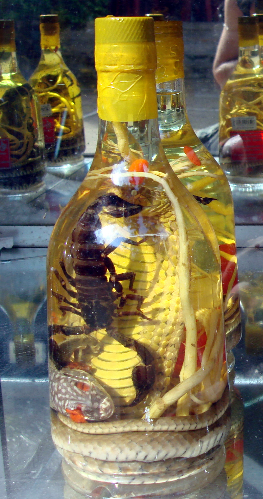 Real scorpion wine on sale, in Taipei